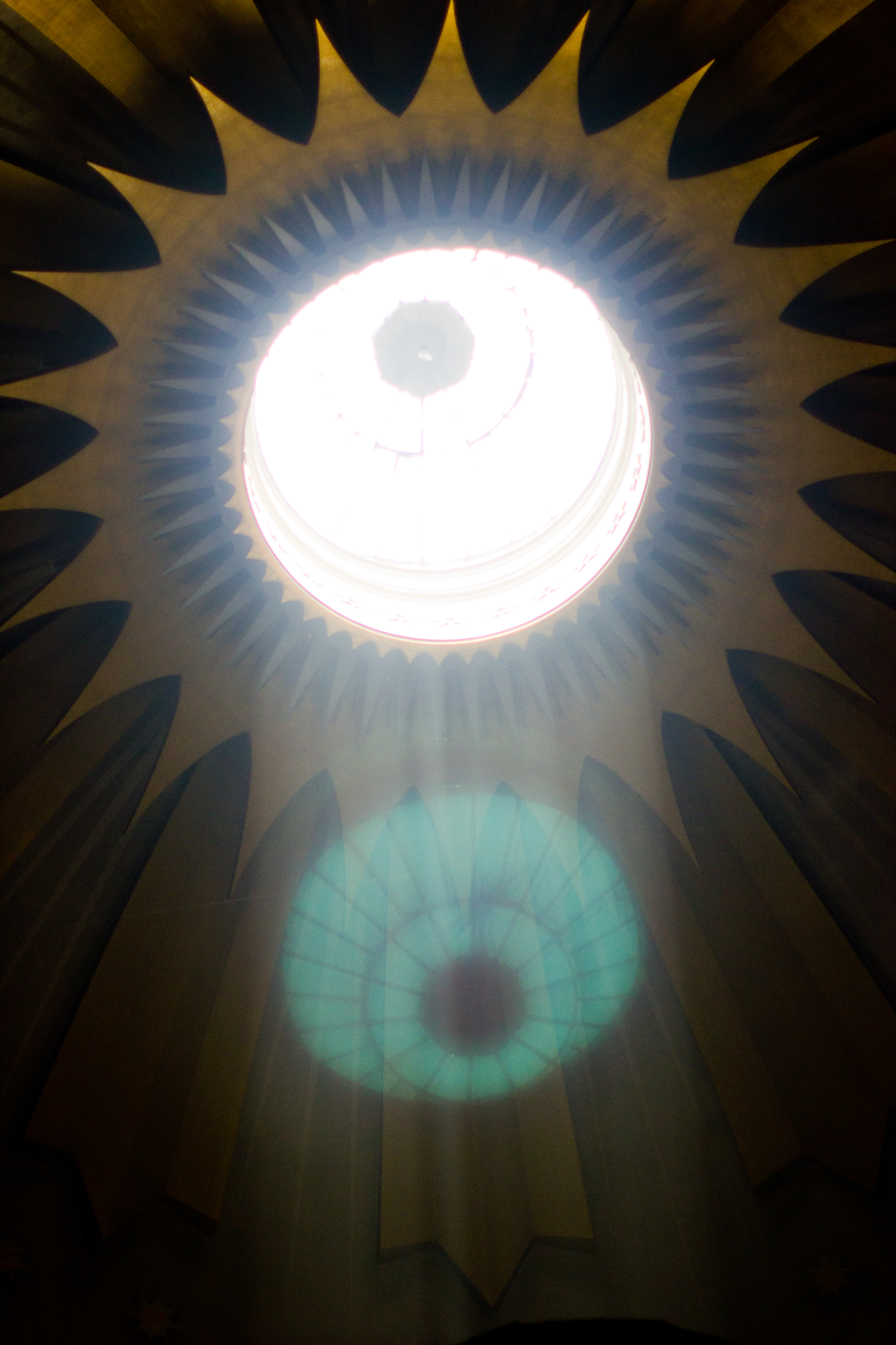 Dome of the Rotunda of the Church of the Holy Sepulchre in Jerusalem, Israel